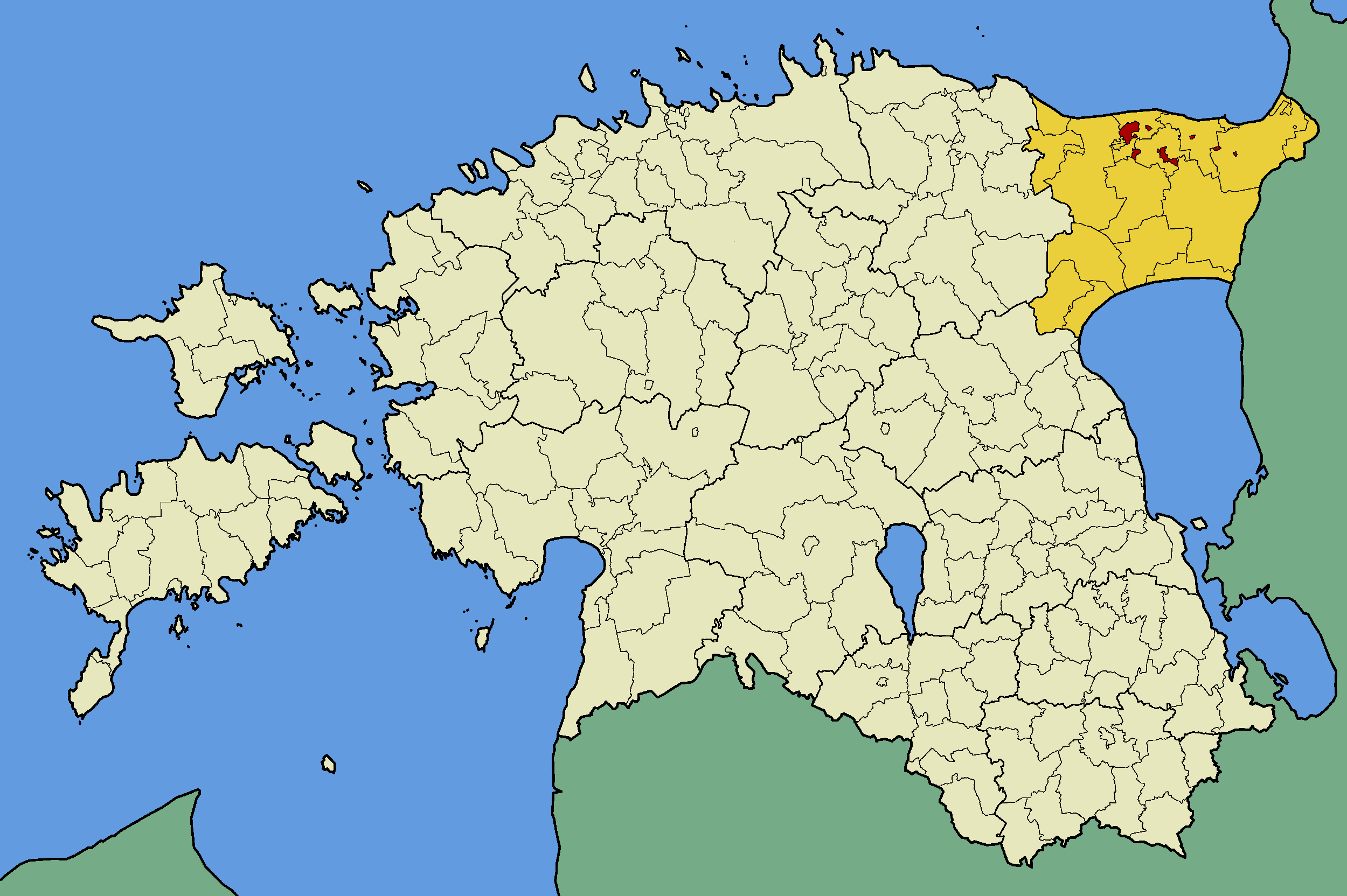 Map of Estonia with borders of municipalities (parishes). Ida-Viru county and Kohtla-Järve town municipality emphasized.